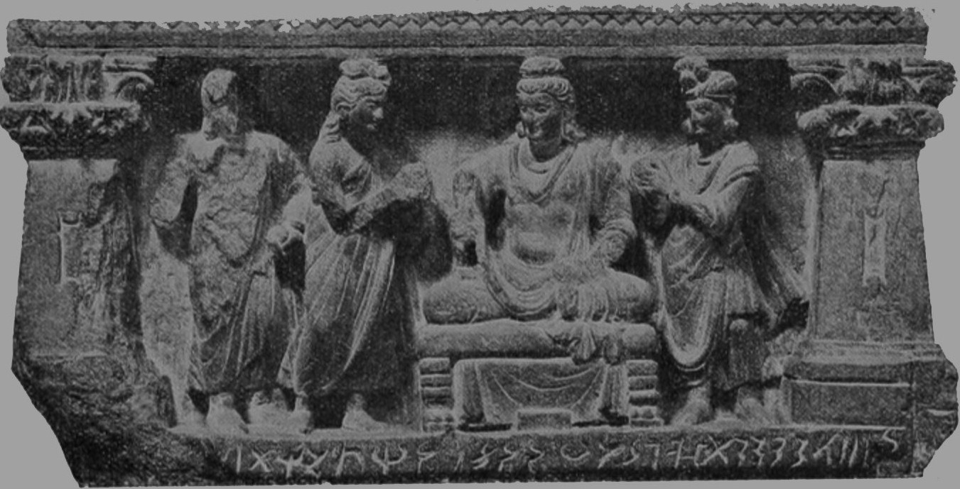 Another image The statue corresponding to the piedestal, now lost.Carved stone Hashtnagar pedestal with ancient Kharosthi, Kharoshthi Script. Found near Rajar in Gandhara, Pakistan. Original is exhibited at the British Museum. The Relief is dated to 384. Bodhisattva.